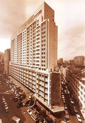 [1] Lee garden Hotel Yun Ping Road n Hysan Avenue Causeway Bay, Hong Kong